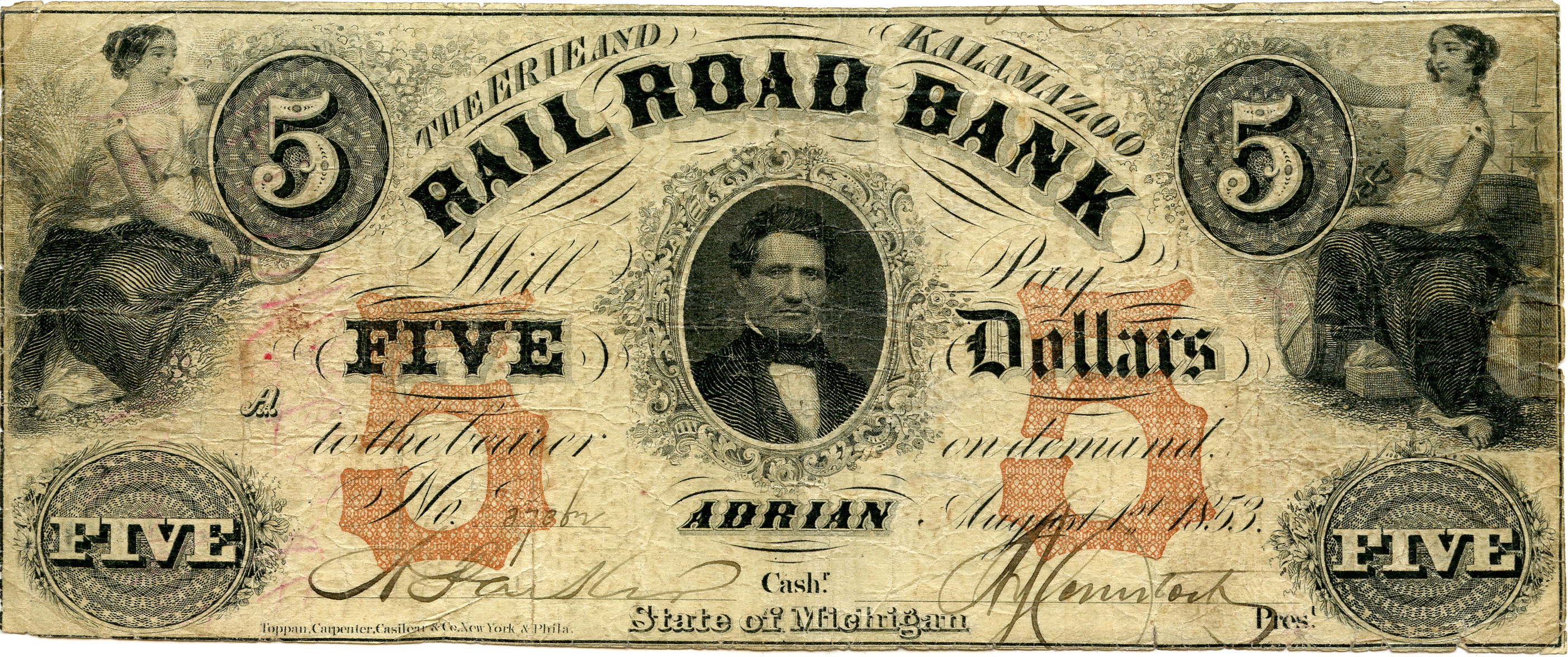 Erie & Kalamazoo Rail Road Bank five dollar note issued August 1st 1853. The center portrait is Addison J. Comstock, one of the principal stockholders of the bank and founder of Adrian, Michigan.[1] On March 26, 1835, the Territory of Michigan authorized the Erie and Kalamazoo Railroad Company to establish a bank at the village of Adrian. [2] The bank failed around 1841, reopened in 1853 then failed again in 1854. Printed by Toppan, Carpenter, Casiler & Co. New York and Philadelphia. Collectors refer to this banknote as a Haxby 10-G34b.